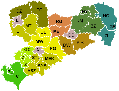 proposed Landkreise in Saxony as of the 2008 reform Map based on Image:Landkreise Sachsen.png by User:Geograv see also Image:Landkreise Sachsen.svg